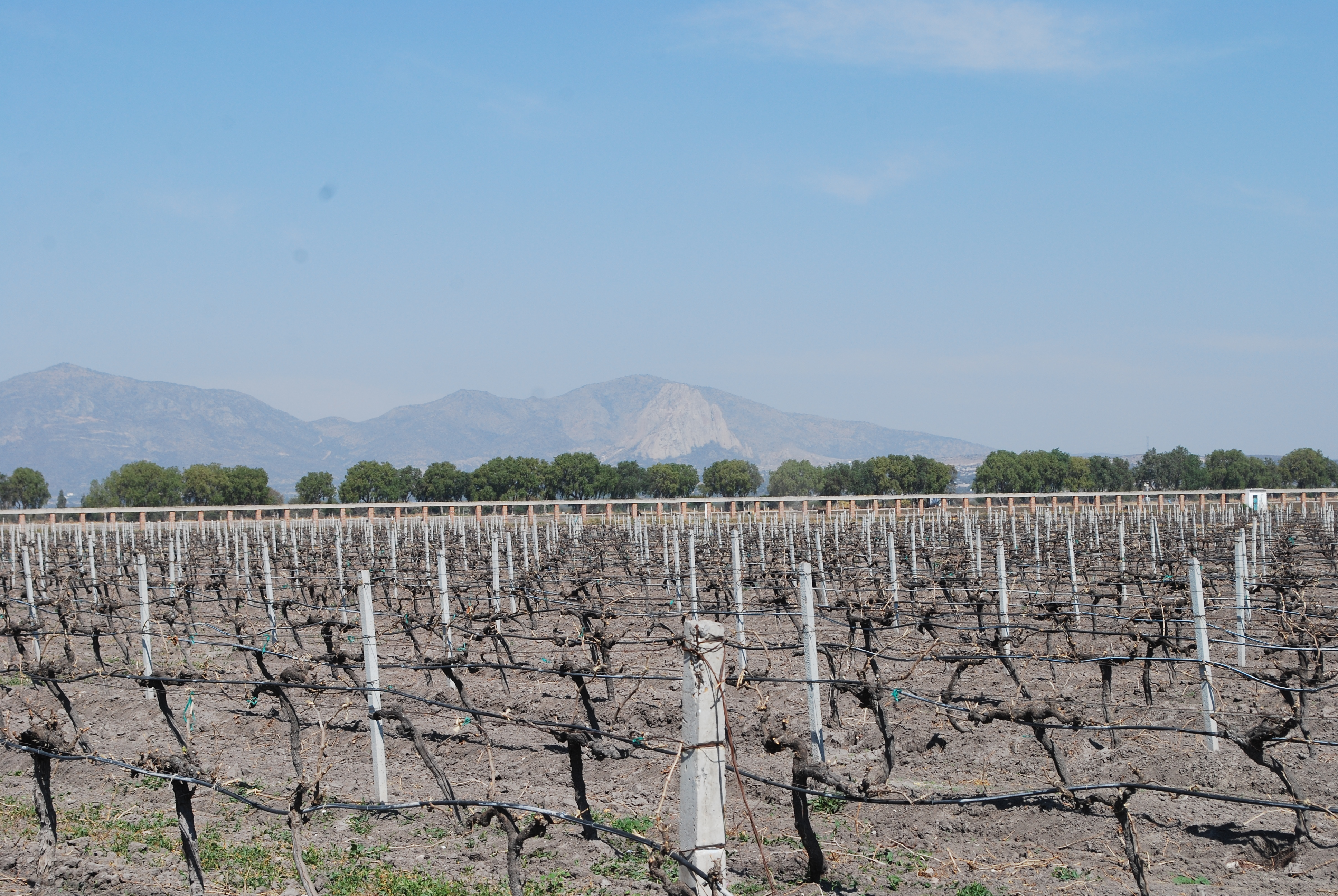 Freixnet vineyard with the Peña de Bernal in the background in Ezequiel Montes, Querétaro, Mexico